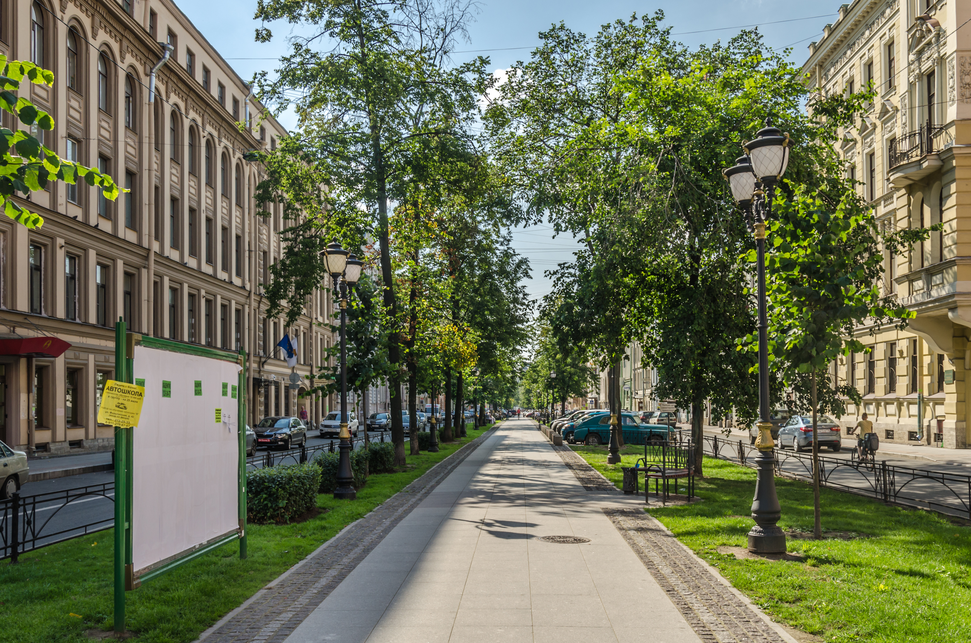 Furshtatskaya street of Saint Petersburg